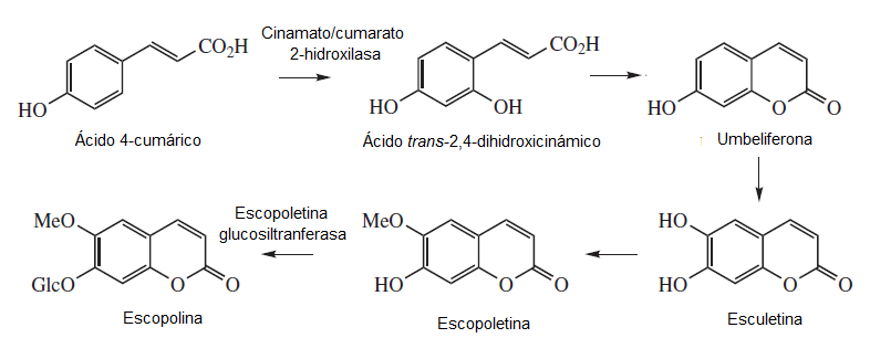 Biosynthesis of coumarins